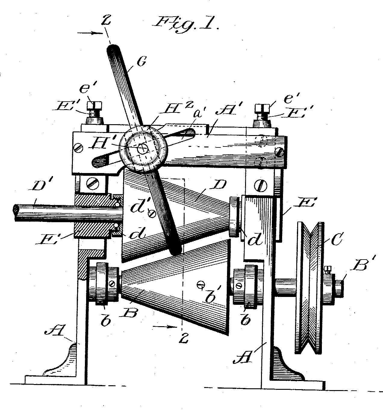 Variable-speed gear // User:MichaelFreyUS760460A